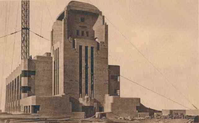 Construction of Building A of Radio Kootwijk